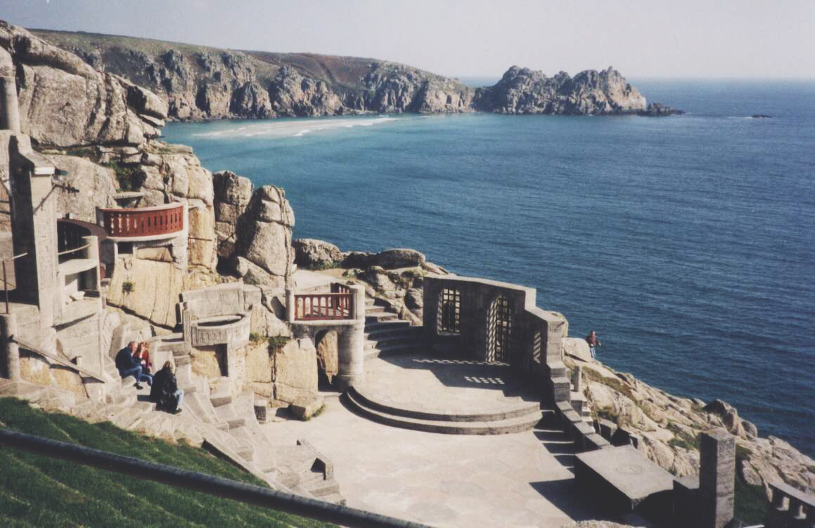 Minack Theatre near Porthcurno, Cornwall, England